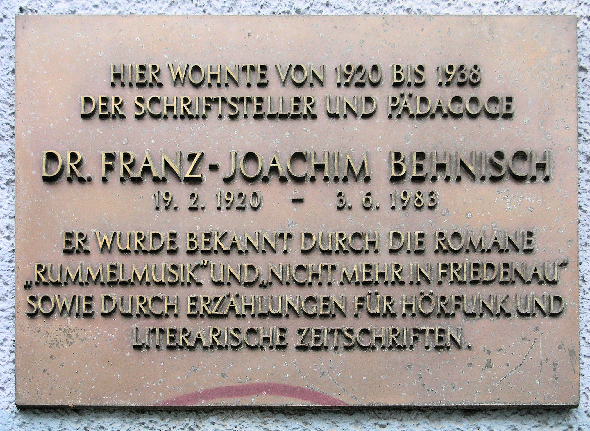 Memorial plaque, Franz-Joachim Behnisch, Katzlerstraße 11, Berlin-Schöneberg, Germany